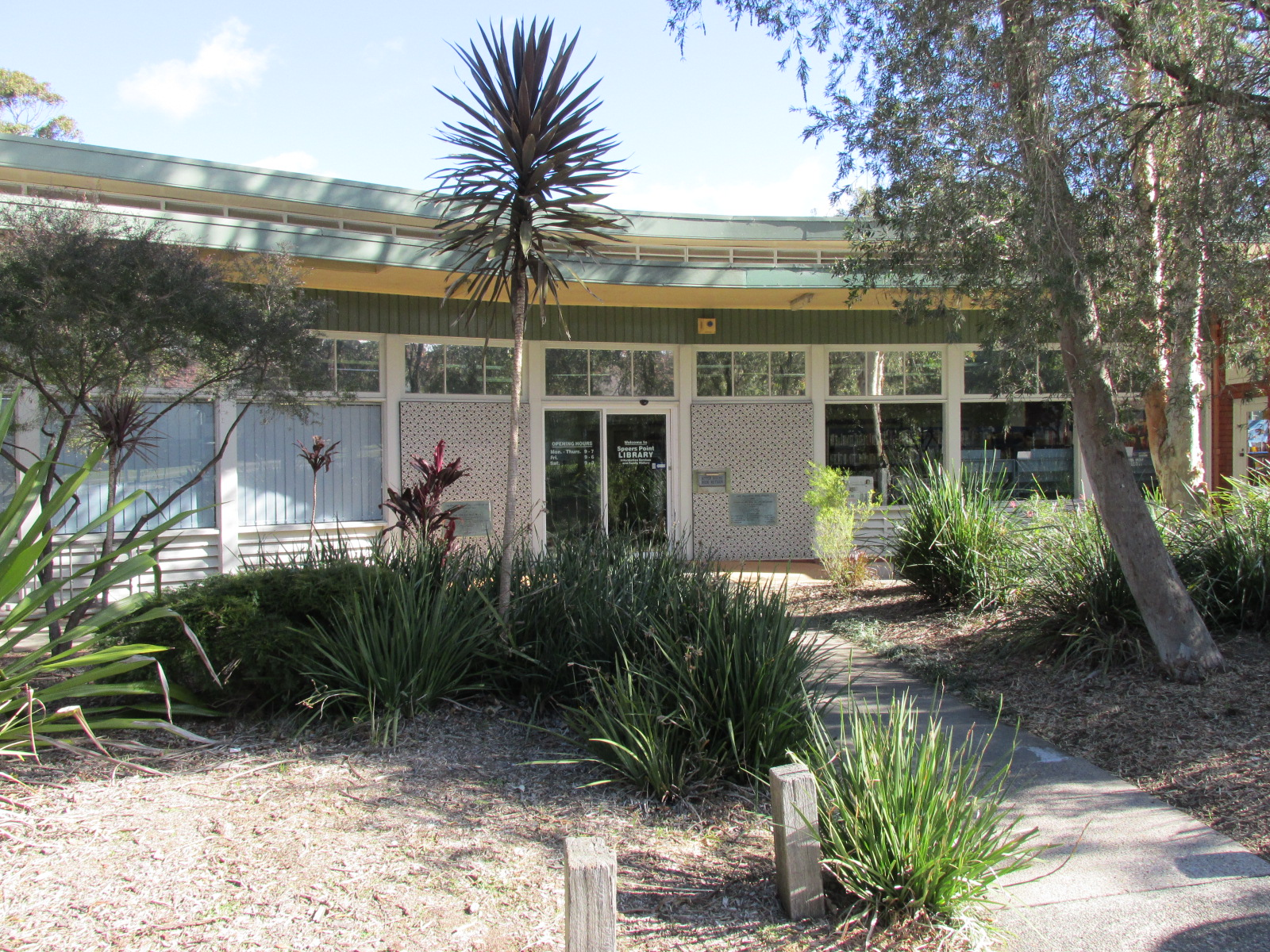 Library at Speers Point, New South Wales